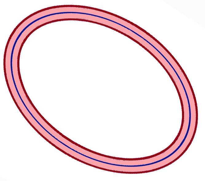 Illustration of Minkowski content